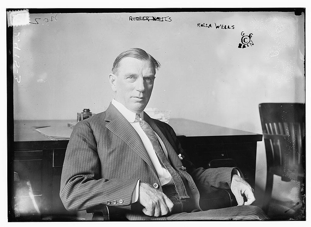 Bain News Service,, publisher. Rolla Wells circa 1913 [between ca. 1910 and ca. 1915] 1 negative : glass ; 5 x 7 in. or smaller. Notes: Title from unverified data provided by the Bain News Service on the negatives or caption cards. Forms part of: George Grantham Bain Collection (Library of Congress). Format: Glass negatives. Repository: Library of Congress, Prints and Photographs Division, Washington, D.C. 20540 USA, General information about the Bain Collection is available at Persistent URL: Call Number: LC-B2- 2495-3